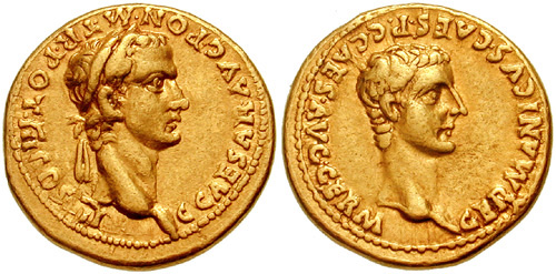 GAIUS (CALIGULA), with GERMANICUS. 37-41 AD. AV Aureus (7.72 gm). Struck 40 AD. Laureate head of Caligula right Bare head of Germanicus right. RIC I 25; Cohen 6.